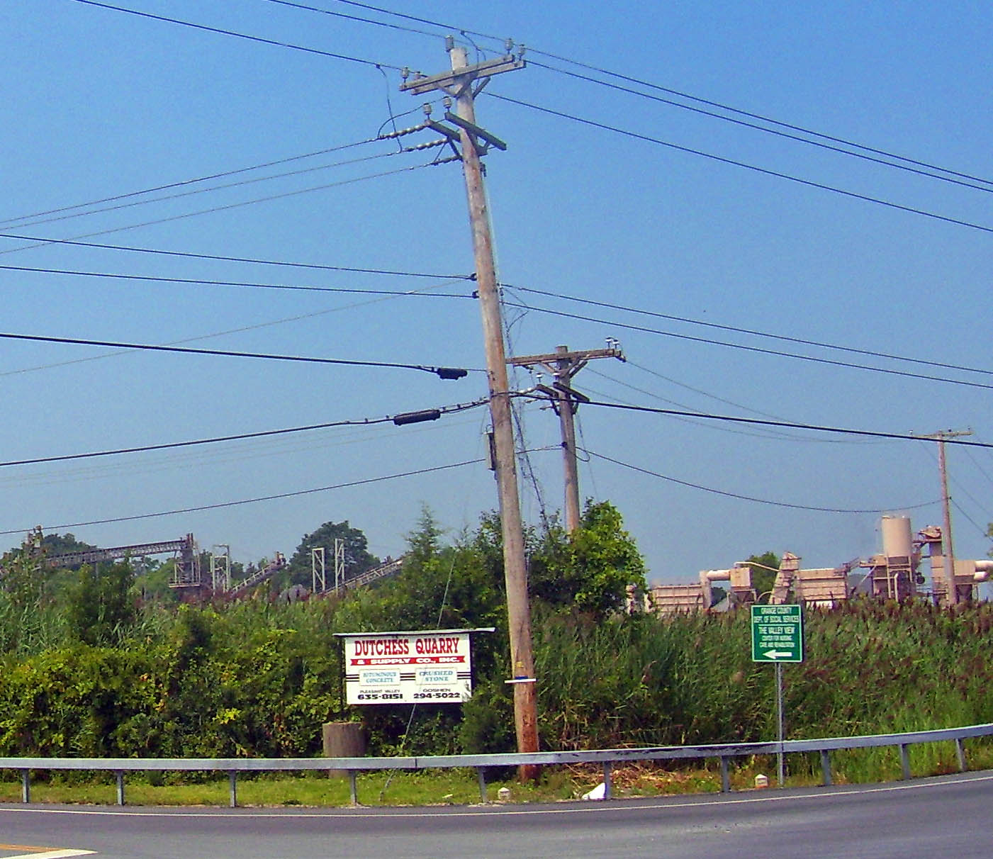 Dutchess Quarry in Town of Goshen, NY, USA, site of caves with relics of Ice Age inhabitants.